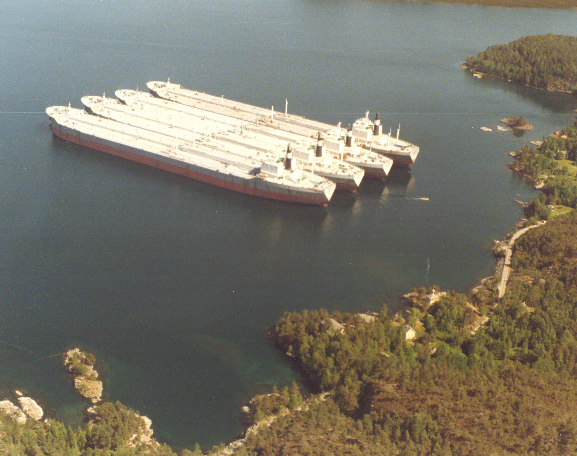 Four of Hilmar Reksten's tankers laid up at Onarheim (Tysnes). From left: Nerva, Aurelian, Kong Haakon VII, Octavian